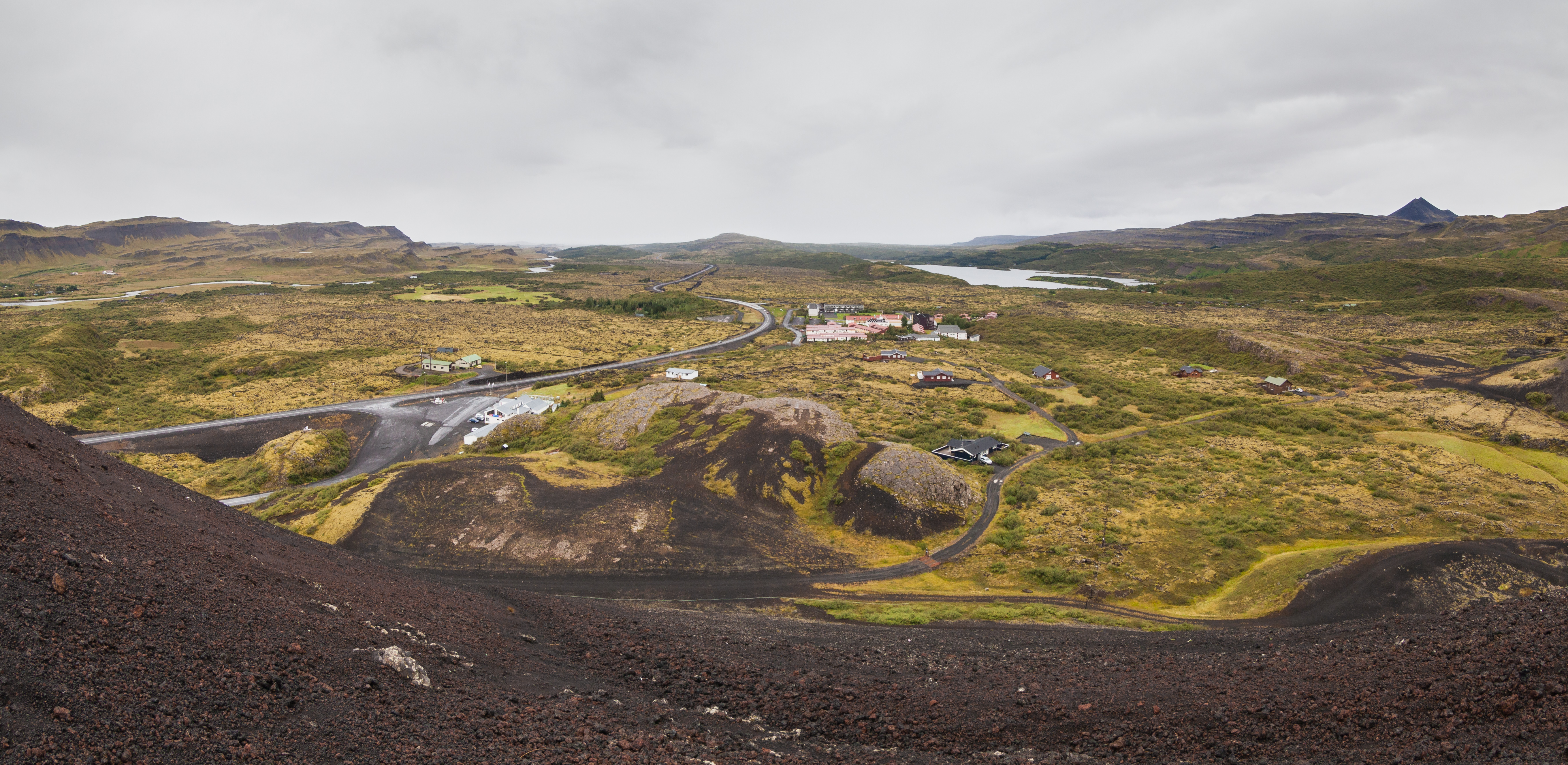 Bifröst University, Grábrók, Vesturland, Iceland